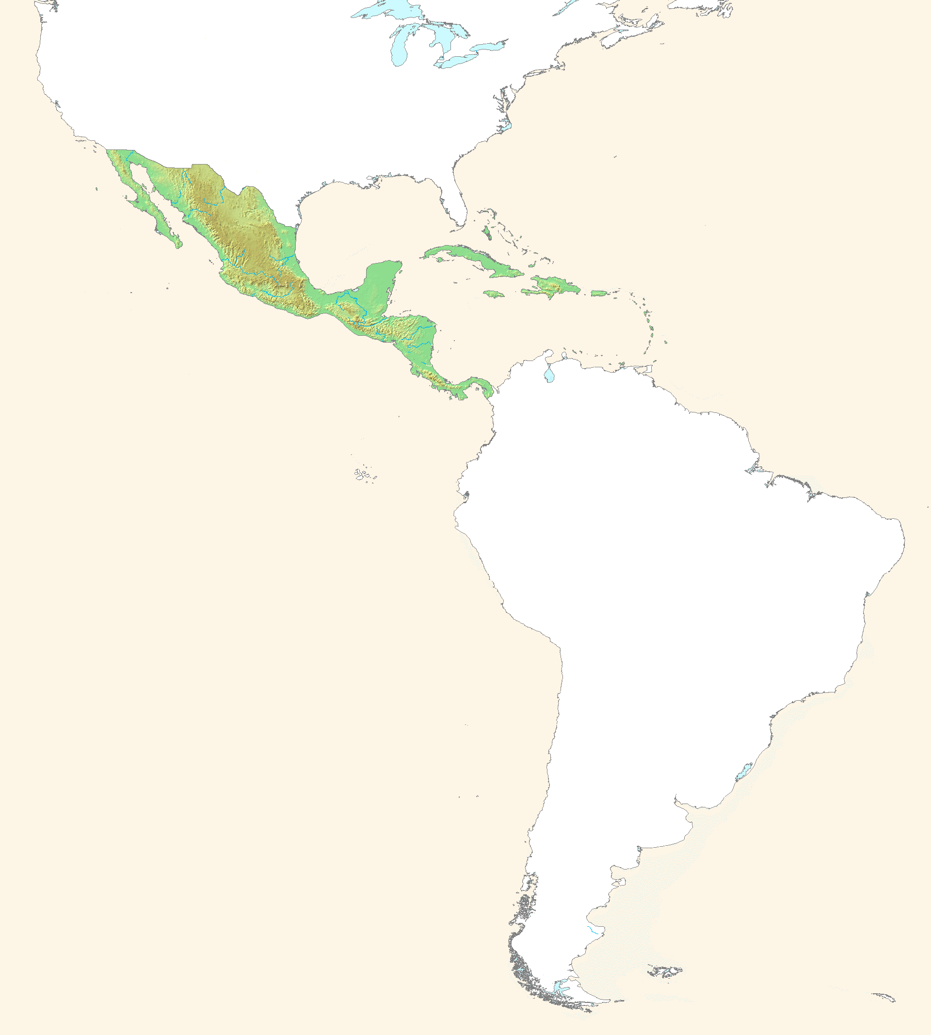 Central America with Mexico and Caribbean